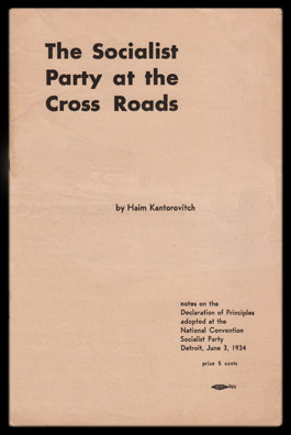 Cover of Haim Kantorovitch's The Socialist Party at the Cross Roads (1934)